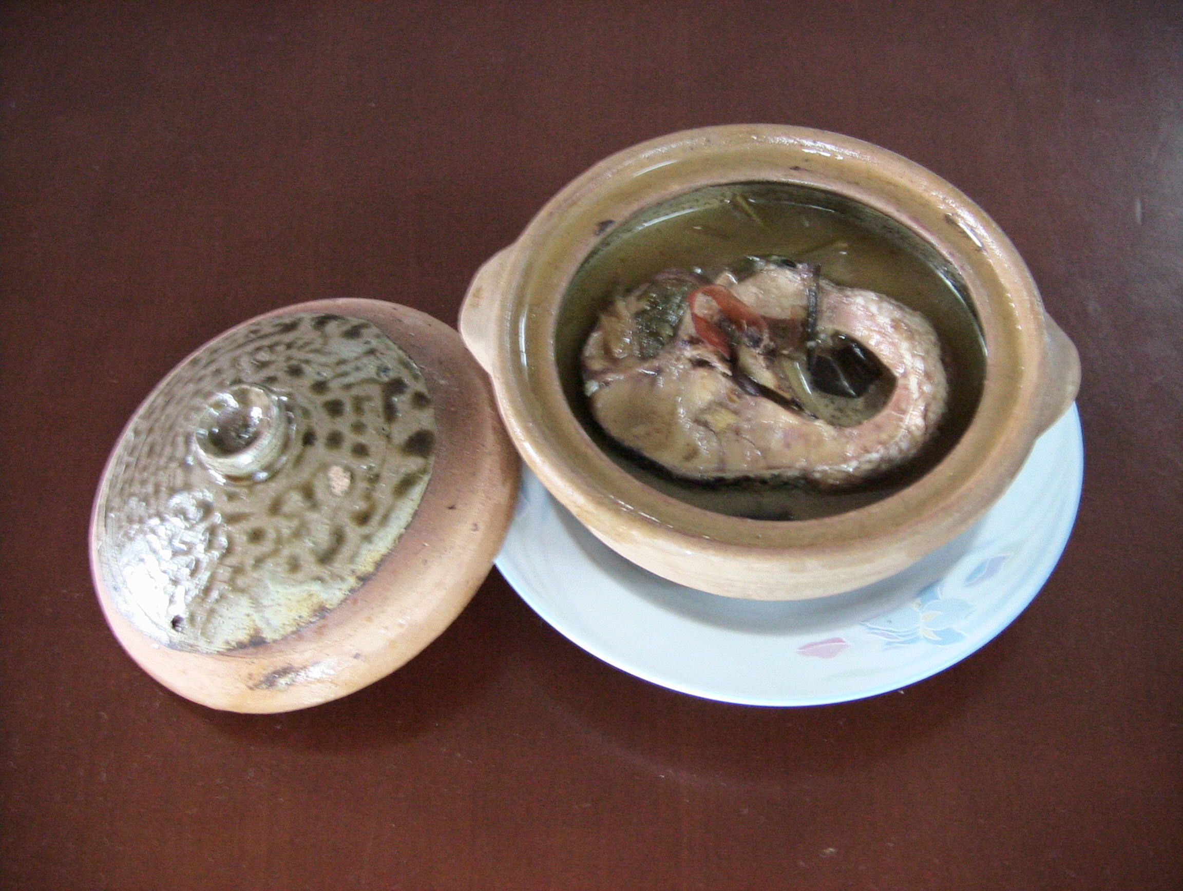 Braised fish